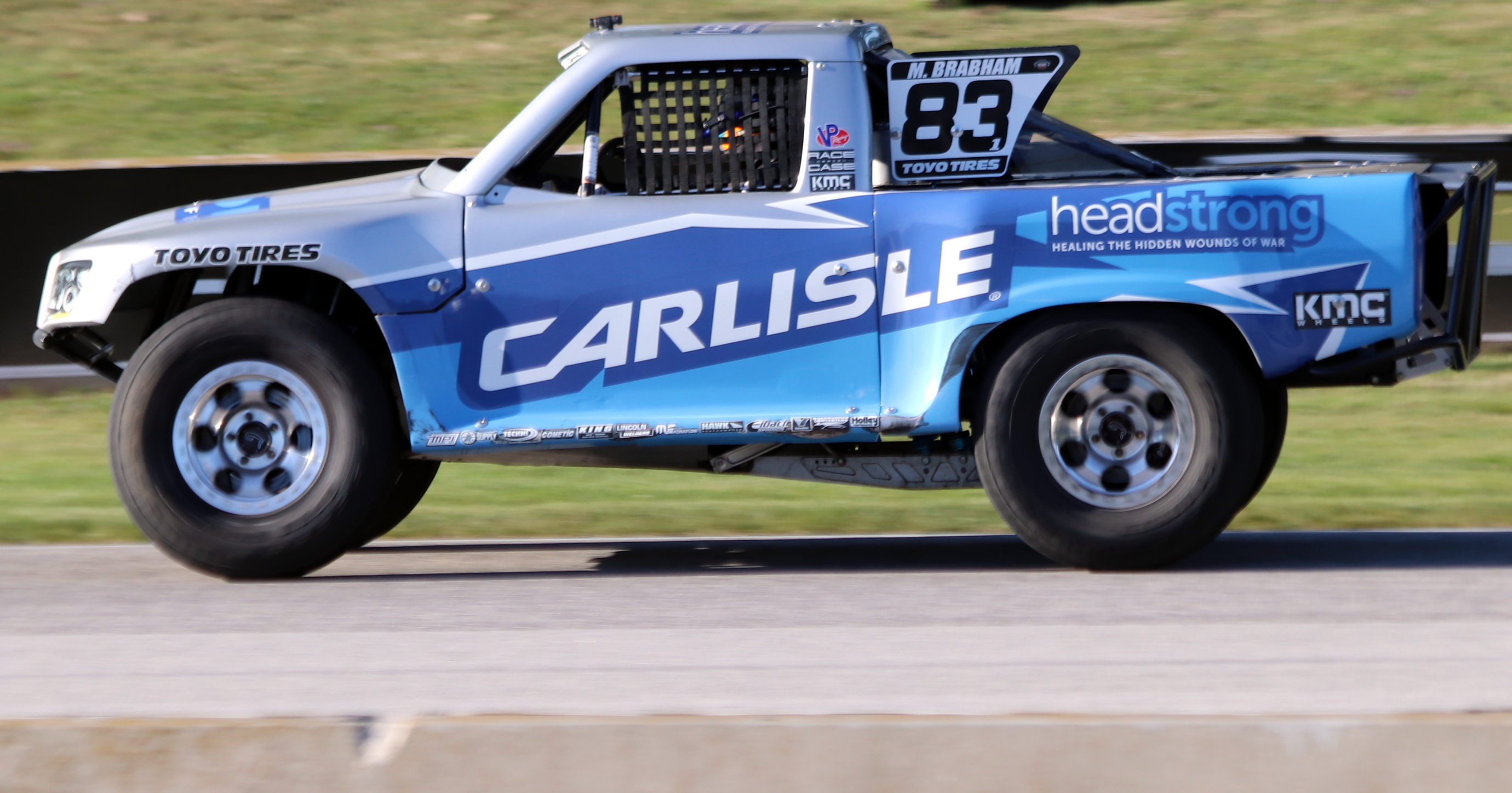 The Stadium Super Truck of Matthew Brabham at Road America in round 15.